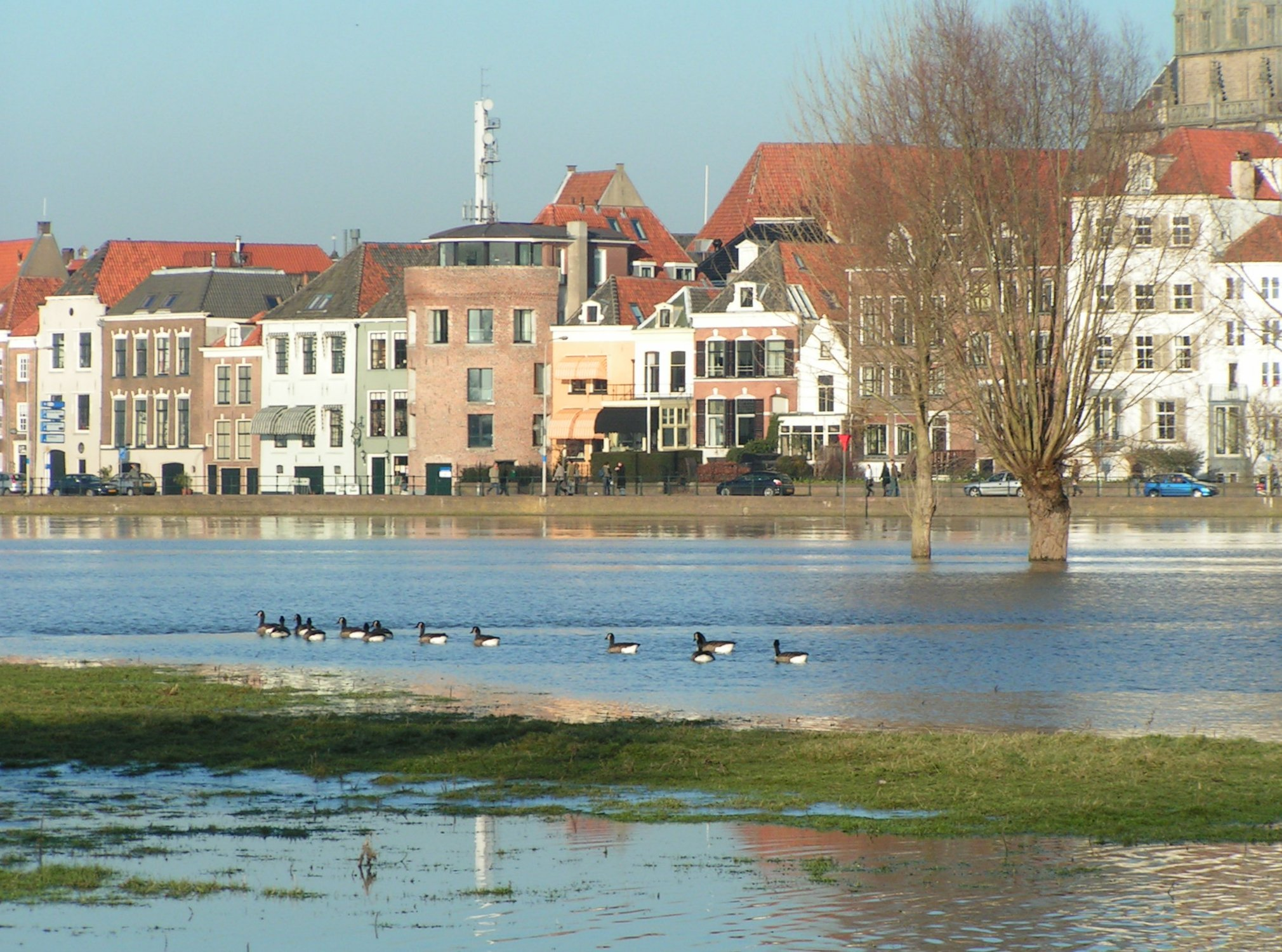 High Water in Deventer